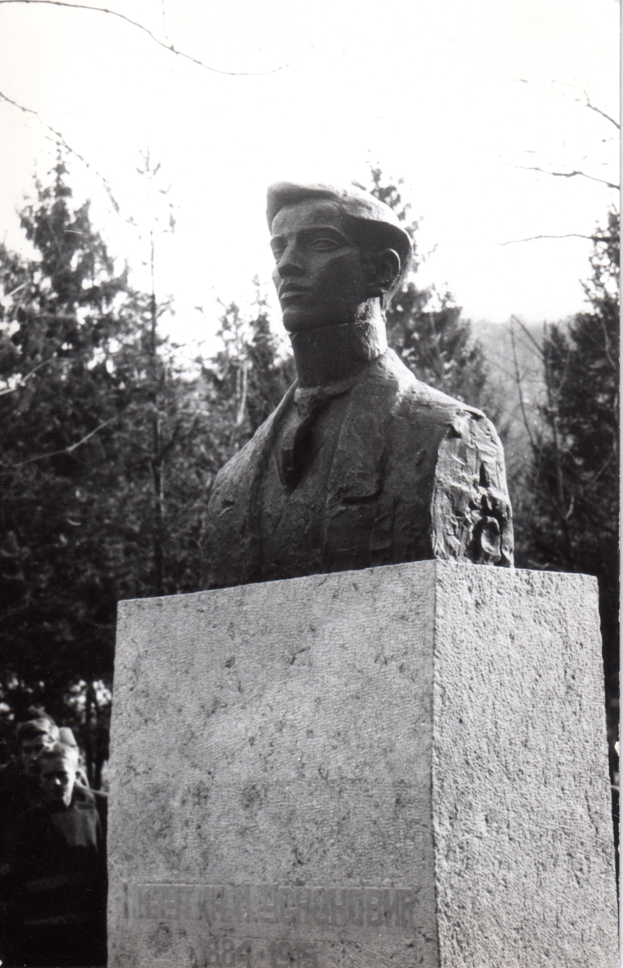 Memorial bust Milutin Uskokovic, 1955.